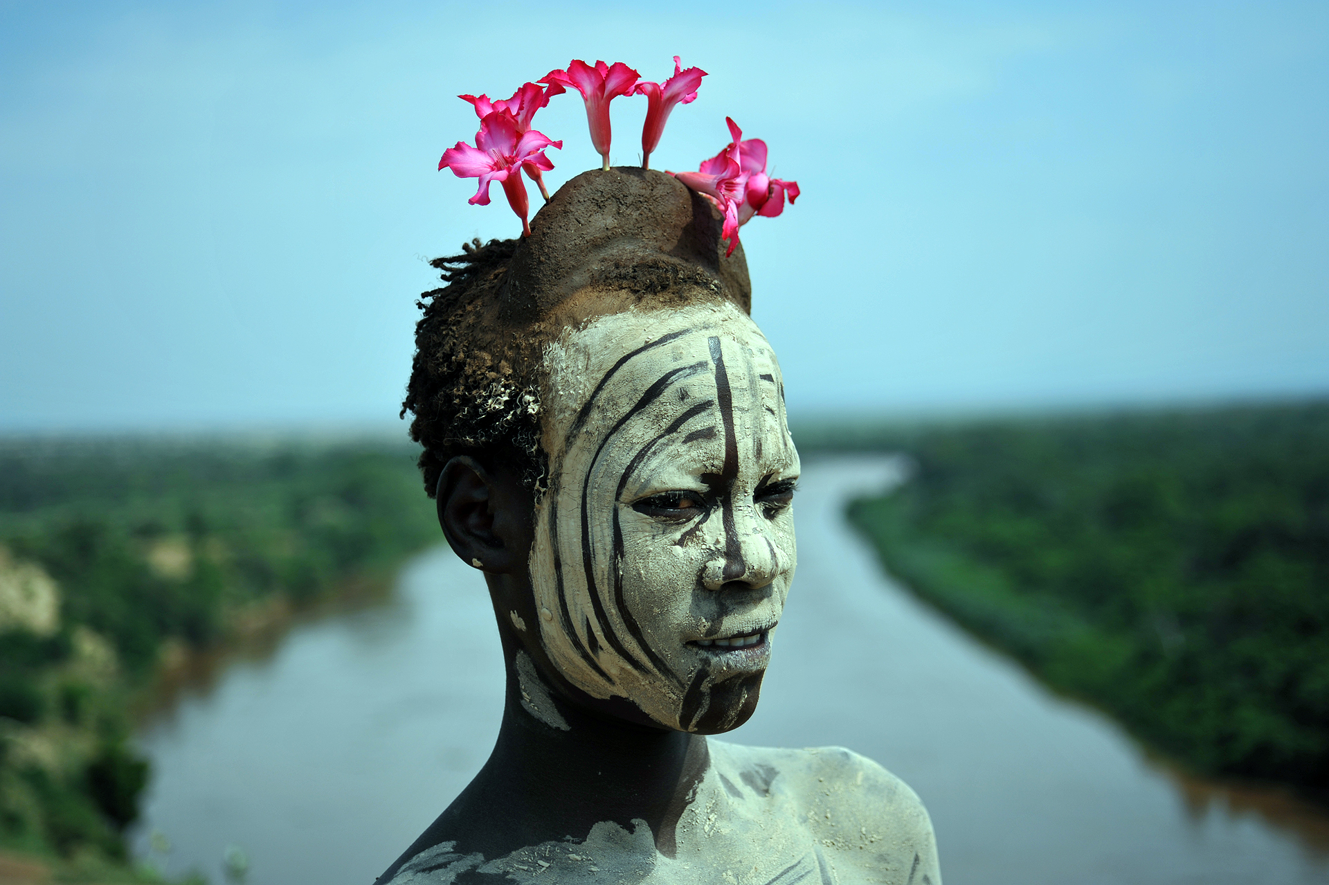 People and places in the Omo Valley, Ethiopia.